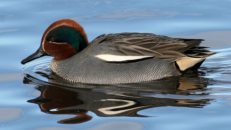 Teal Anas crecca, Martin Mere, Lancashire, England This image was created by Ken Billington. If you are interested in a high resolution copy of this image, please contact the author Ken Billington in order to negotiate conditions of use. Do not copy this image illegally by ignoring the terms of the license below, as it is not in the public domain. If you would like special permission to use, license, or purchase the image please contact me to negotiate terms. More free images can be found on Ken Billington's Bird & Wildlife Photography.